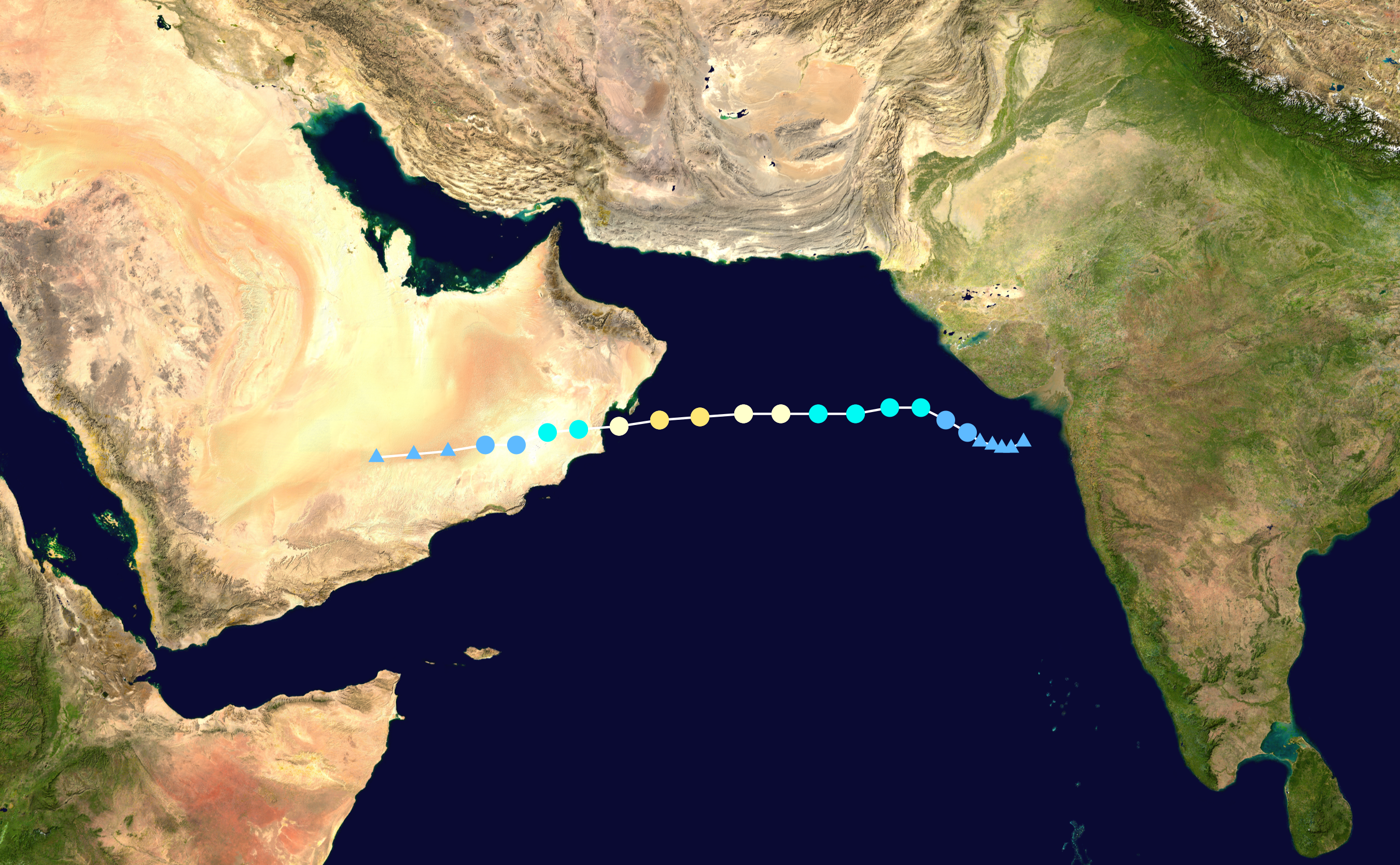 Track map of Very Severe Cyclonic Storm Hikaa of the 2019 North Indian Ocean cyclone season. The points show the location of the storm at 6-hour intervals. The colour represents the storm's maximum sustained wind speeds as classified in the Saffir–Simpson scale (see below), and the shape of the data points represent the nature of the storm, according to the legend below. Saffir–Simpson scale Tropical depression≤38 mph≤62 km/h Category 3111–129 mph178–208 km/h Tropical storm39–73 mph63–118 km/h Category 4130–156 mph209–251 km/h Category 174–95 mph119–153 km/h Category 5≥157 mph≥252 km/h Category 296–110 mph154–177 km/h Unknown Storm type Tropical cyclone Subtropical cyclone Extratropical cyclone / Remnant low / Tropical disturbance / Monsoon depression